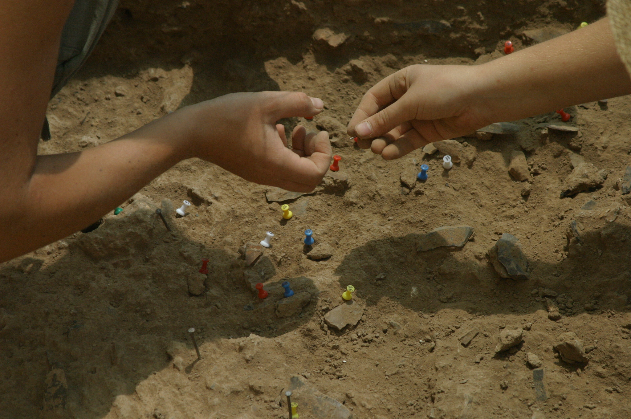 Excavating a layer rich with artifacts at Misliya Cave, Mount Carmel, Israel